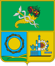 Coats of arms of Kharkivskyj raions